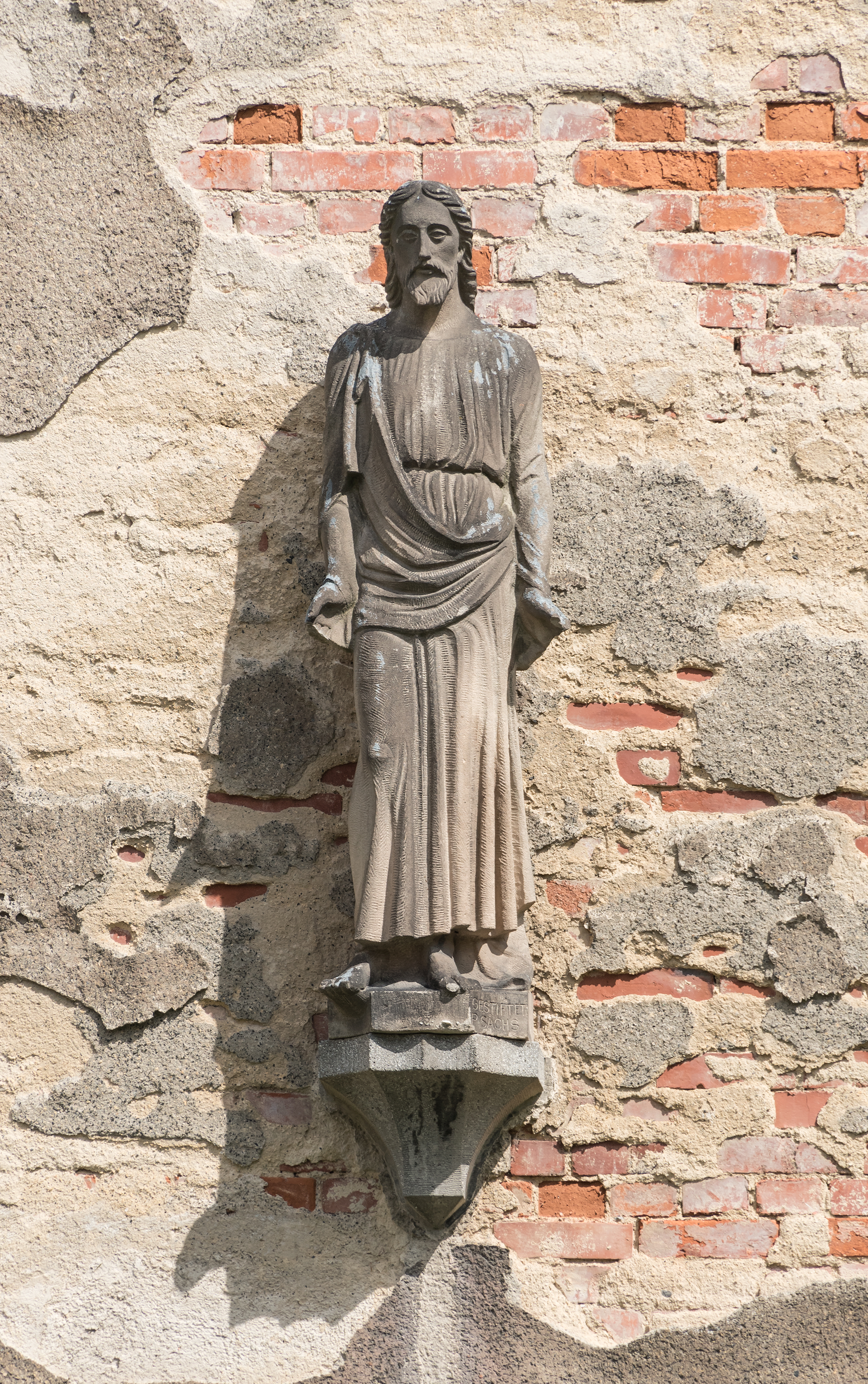 Ruin of evangelical church in Lądek-Zdrój